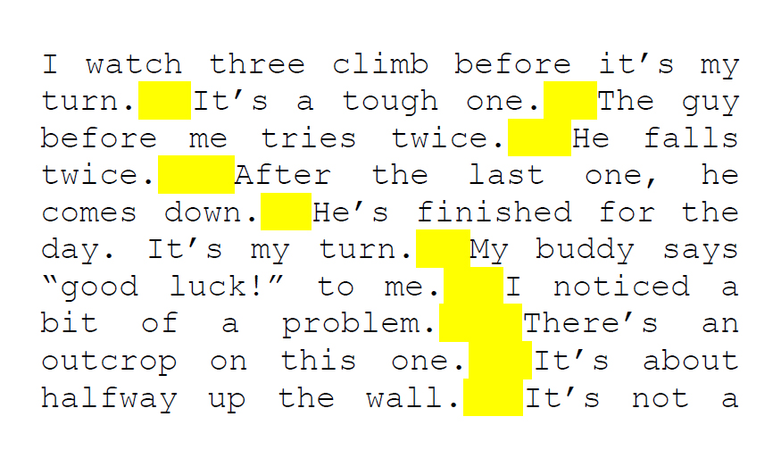 An image of justified text using two spaces between most sentences. The space between sentences is highlighted in yellow to illustrate a "river" effect.